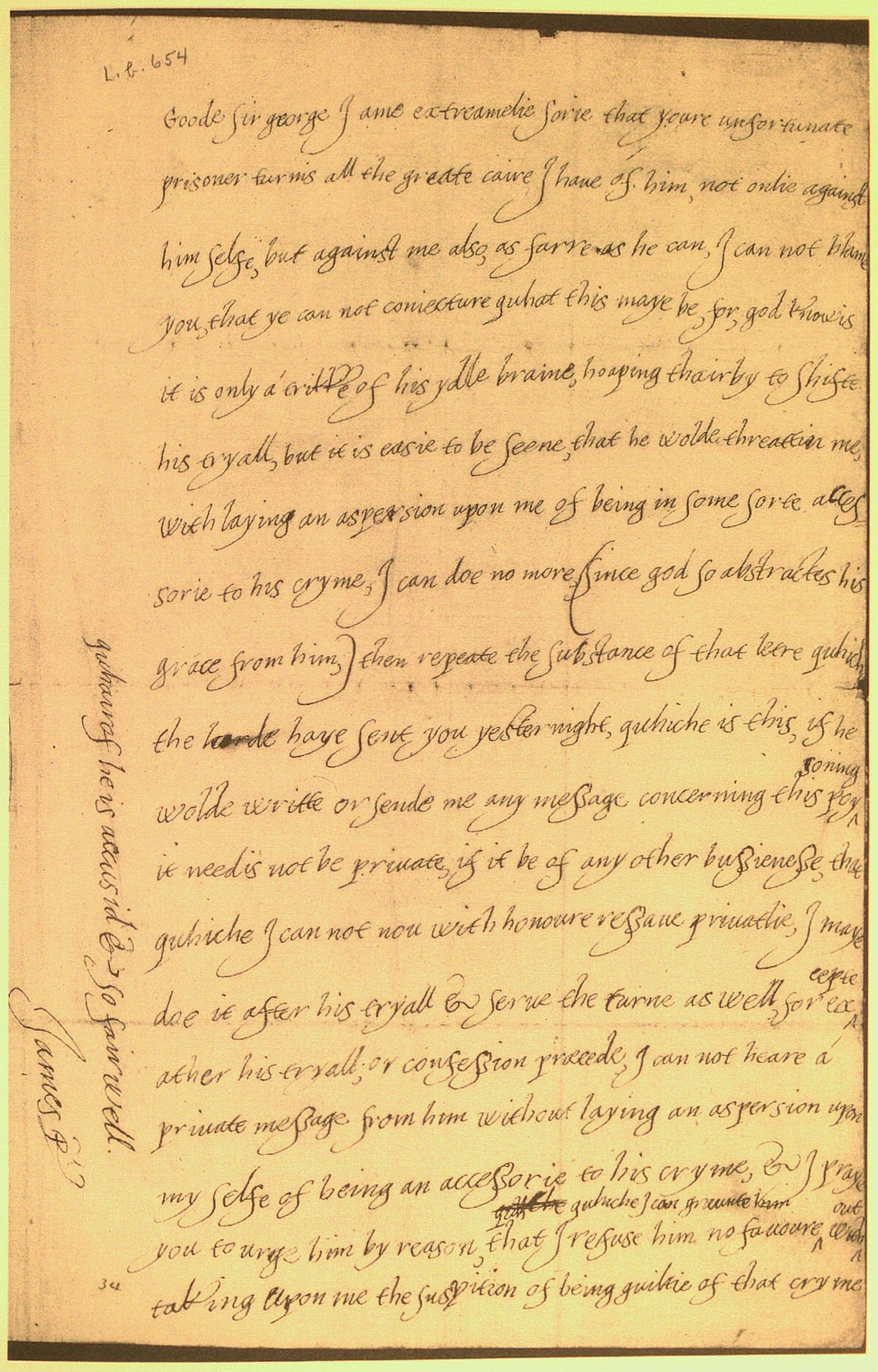 An autograph letter of King James I of England to Sir George More. Washington (D.C.), Folger Shakespeare Library, MS. L. b. 654.